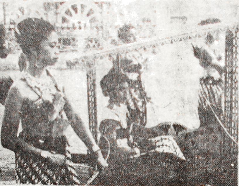 On the set of the Indonesian film Lahirnja Gatotkatja (1960), being filmed in Yogyakarta